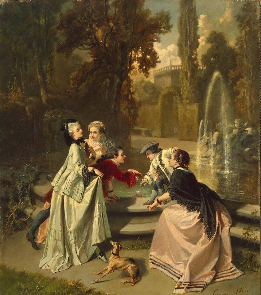 Auguste Serrure